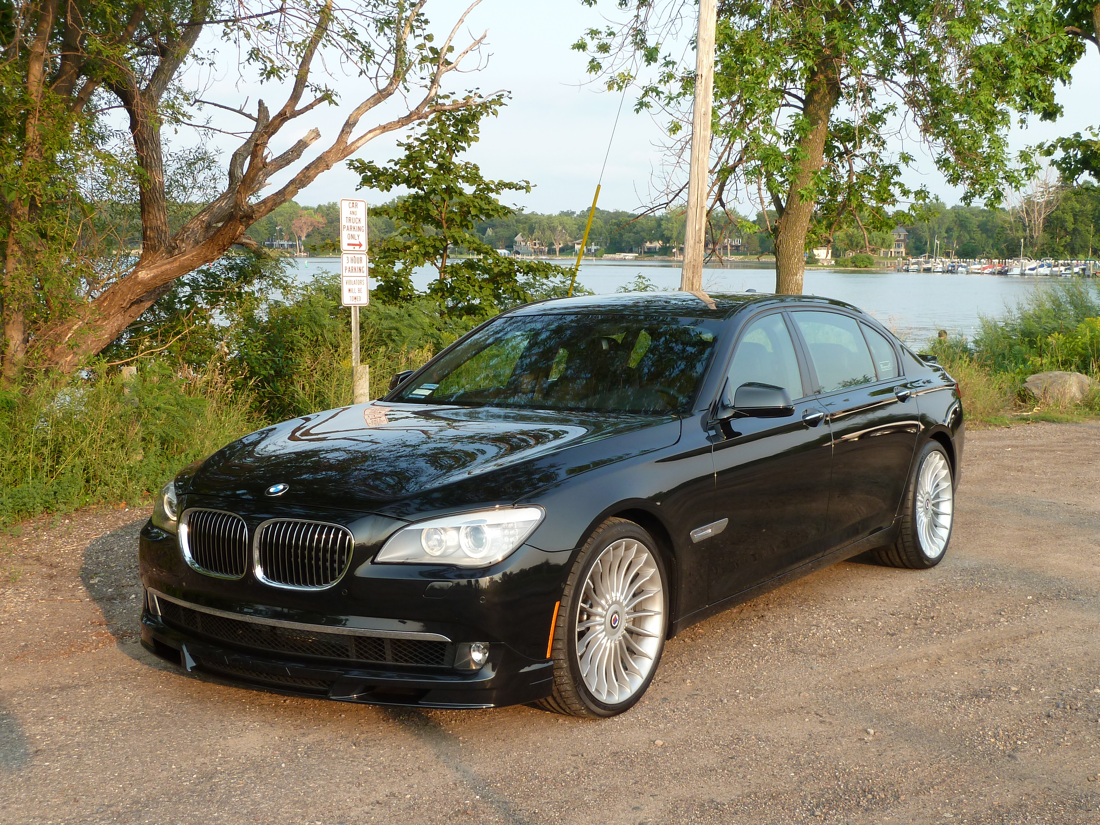 2012 BMW Alpina B7, alongside Gray's Bay in Lake Minnetonkain Wayzata, Minnesota, USA. The 21-inch rims are also Alpina's 20-spoke alloy wheels. This is the "L", an extended wheelbase model using the BMW F02 base.